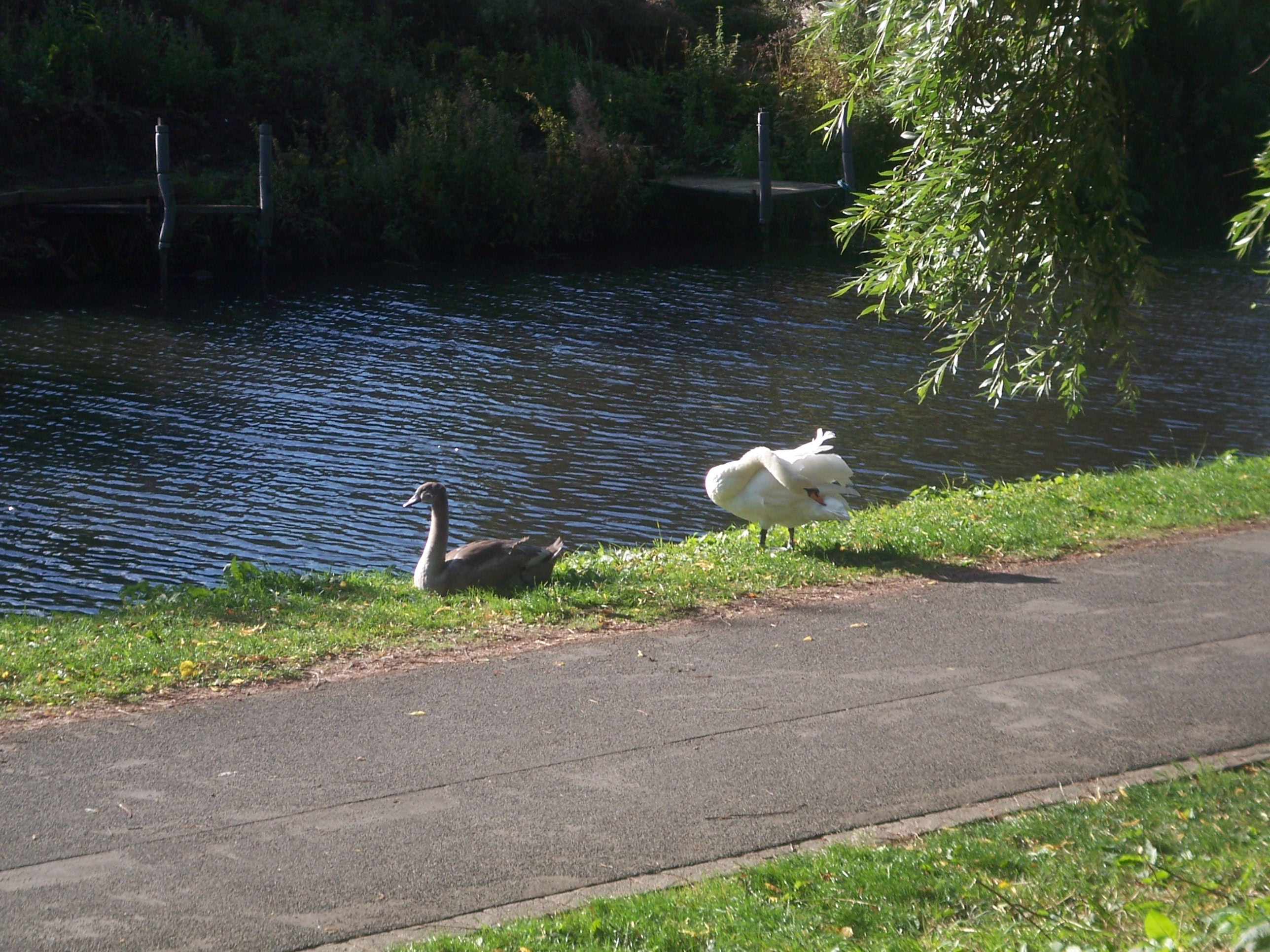 Phot of swan and cygnet on Union Canal at Polwarth.